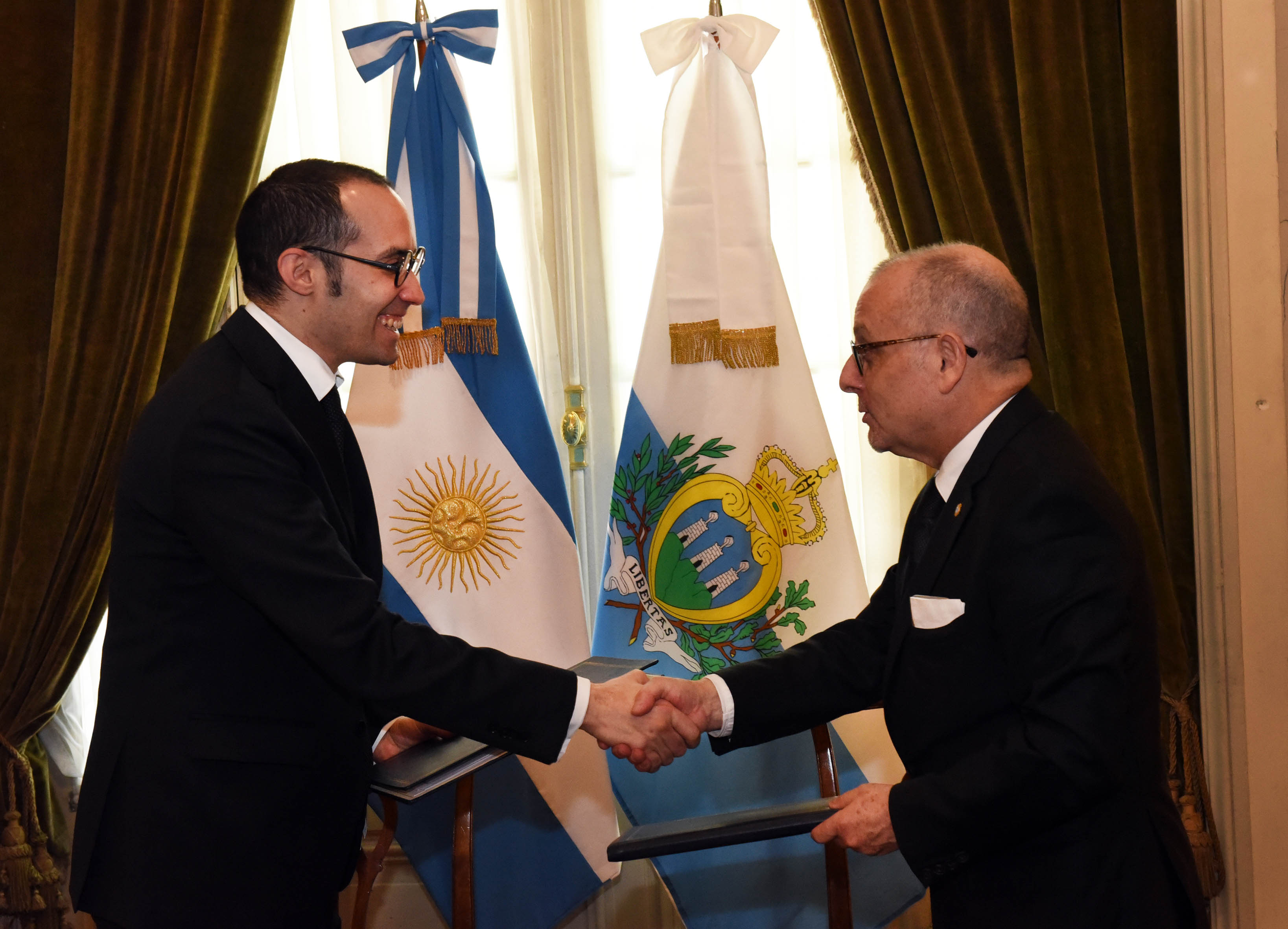 El Canciller Jorge Faurie se reunió con su par de San Marino, Nicola Renzi, para tratar asuntos de la relación bilateral, con particular énfasis en la cooperación económica y comercial, de educación, cultura, turismo, información tributaria, así como la participación de San Marino en la Exposición Internacional 2023 que tendrá lugar en Buenos Aires. Foto: Roberto Daniel Garagiola.